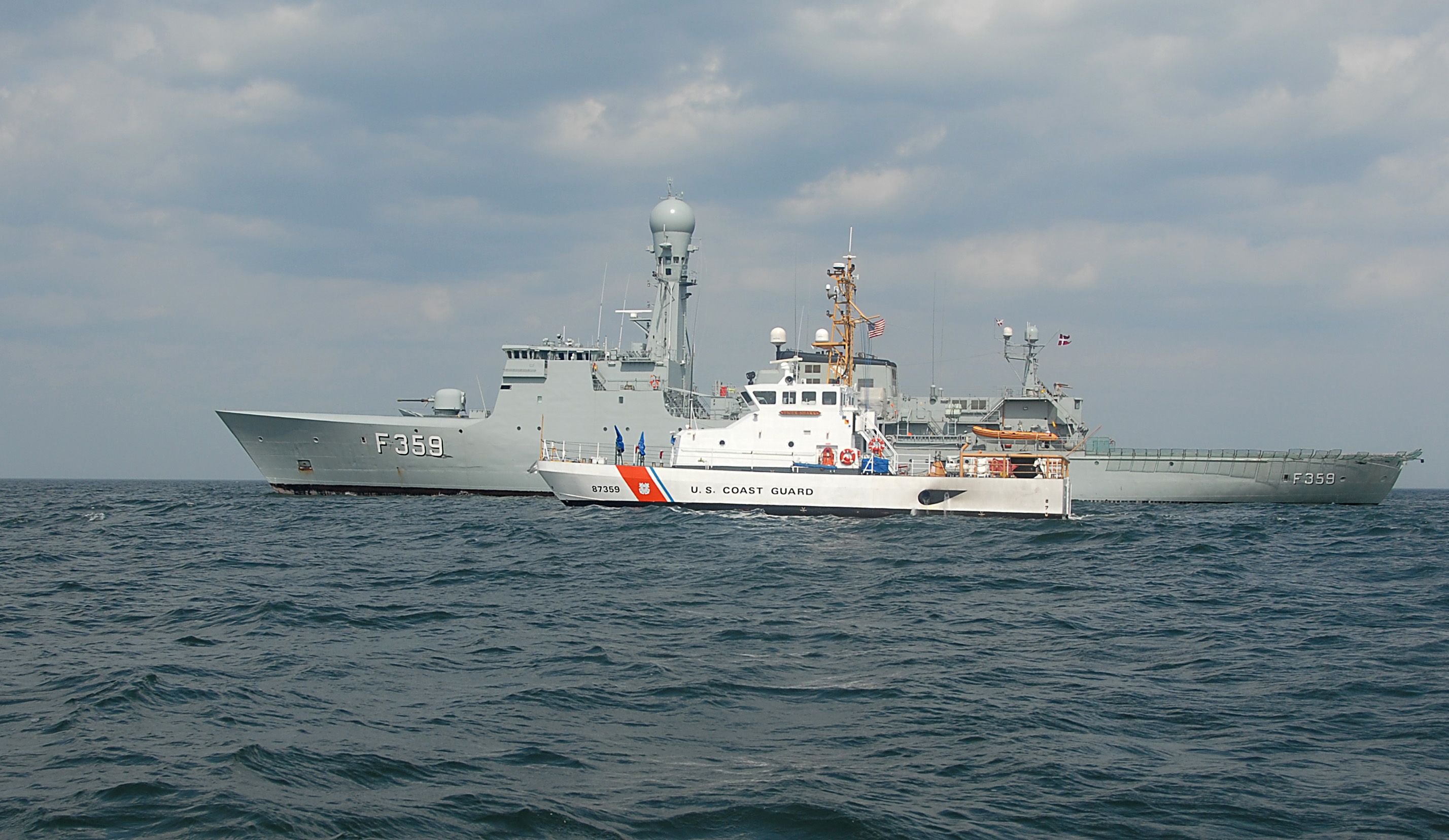 Coast Guard Cutter Tiger Shark pulls alongside Royal Danish Navy ship during two-day exercise (FOR RELEASE) BOSTON- The crew of Coast Guard Cutter Cutter Tiger Shark, home-ported in Newport, R.I., pulls alongside the Vaedderen, a Royal Danish Naval ship, in Cape Cod Bay, Mass., March 26, 2008. The Tiger Shark hosted the Royal Danish Navy for a damage control exercise as part of a two-day exercise to enhance teamwork between the Coast Guard and Royal Danish Navy.